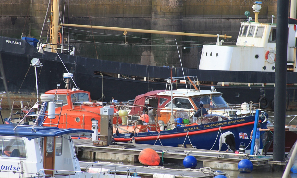 Former Watson Class lifeboat The Good Hope (official number 821) moored amoung the motor cruisers duirng a stopover in Watchet, Somerset.